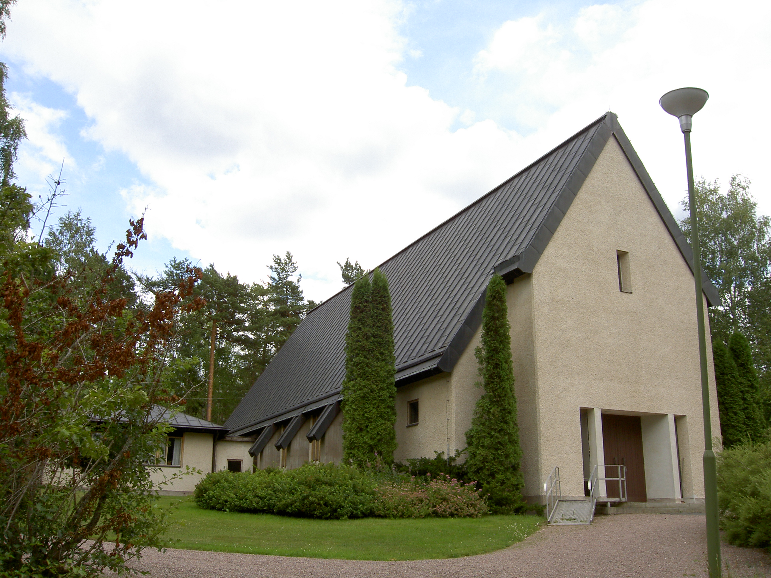 Horndal's church, Sweden